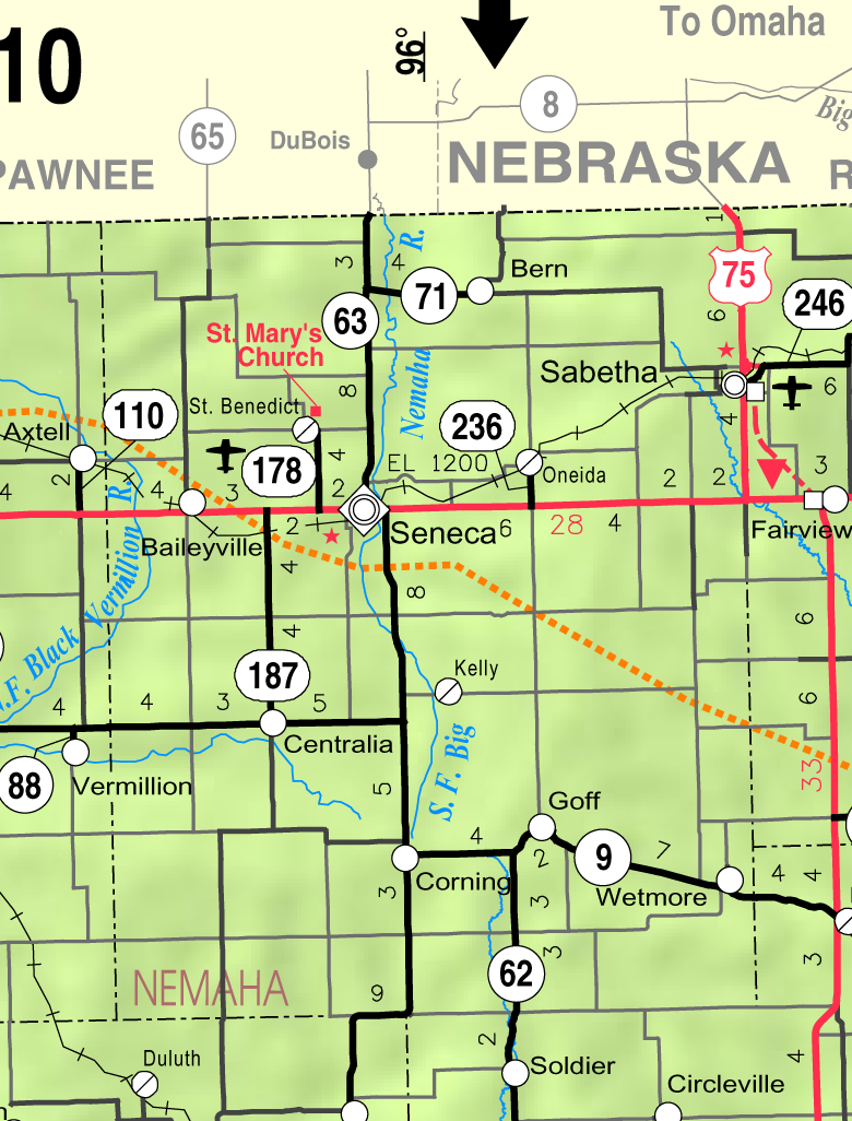 This map of Nemaha County, Kansas, USA, is copied at a resolution of 300 pixels/inch from the original PDF file.